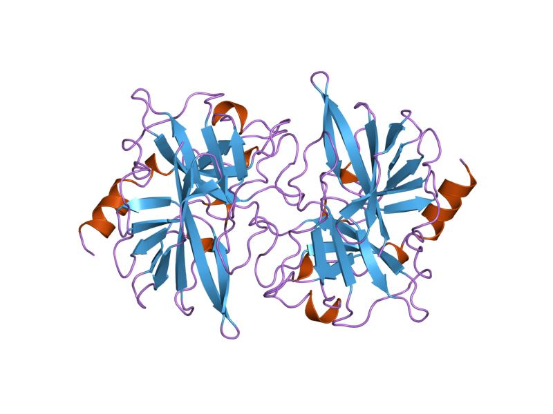 Cartoon representation of the molecular structure of protein registered with 1fon code.